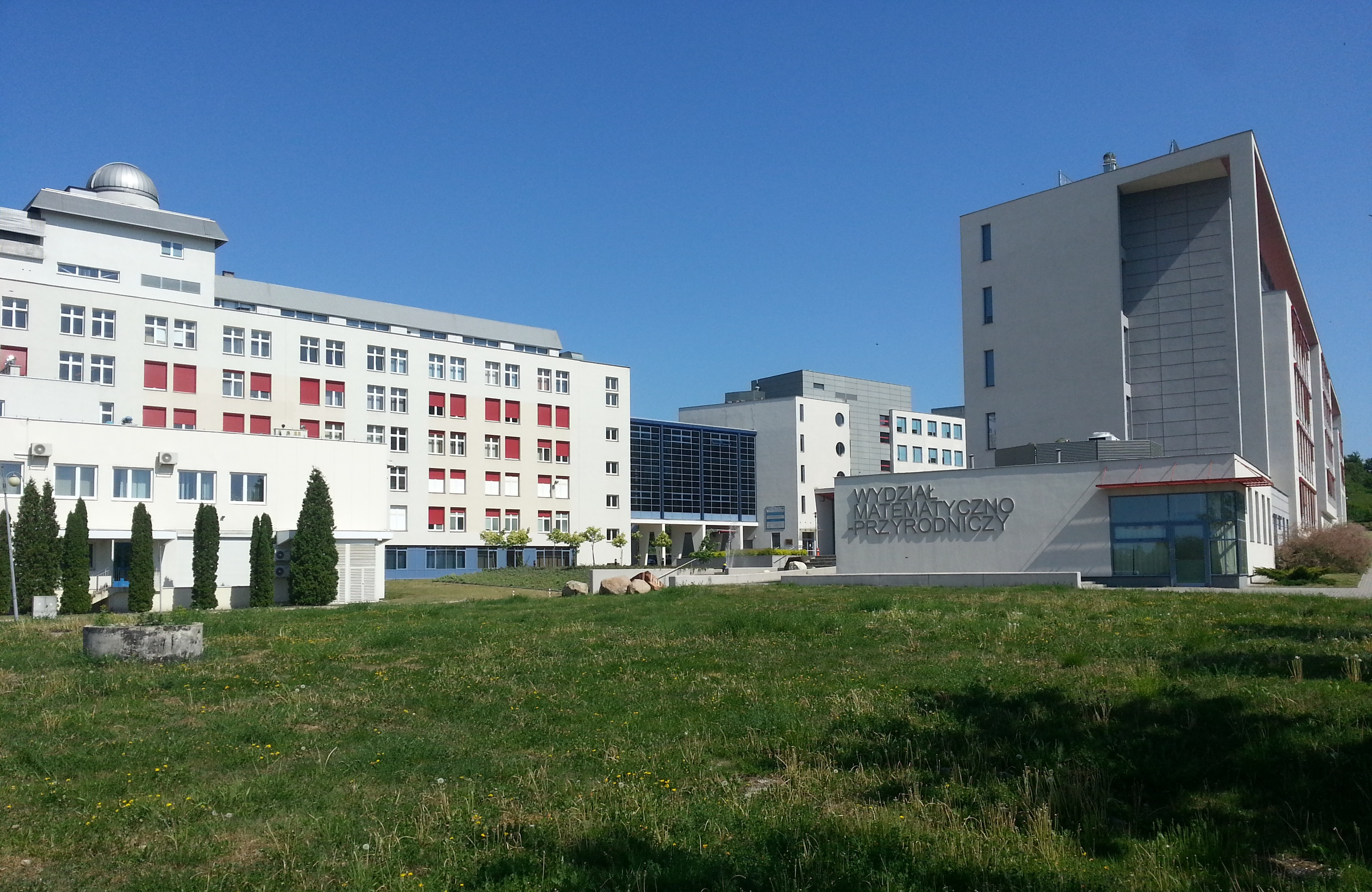 The Faculty of Mathematics and Natural Sciences